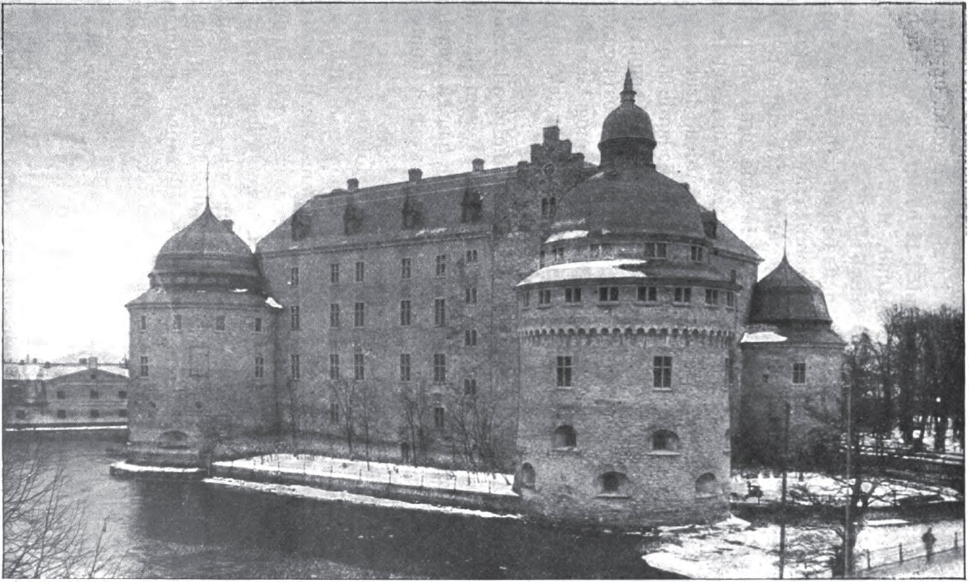 "Örebro slott" photo by B. Hakelier. Illustration from Nils Holgerssons underbara resa genom Sverige by Selma Lagerlöf.